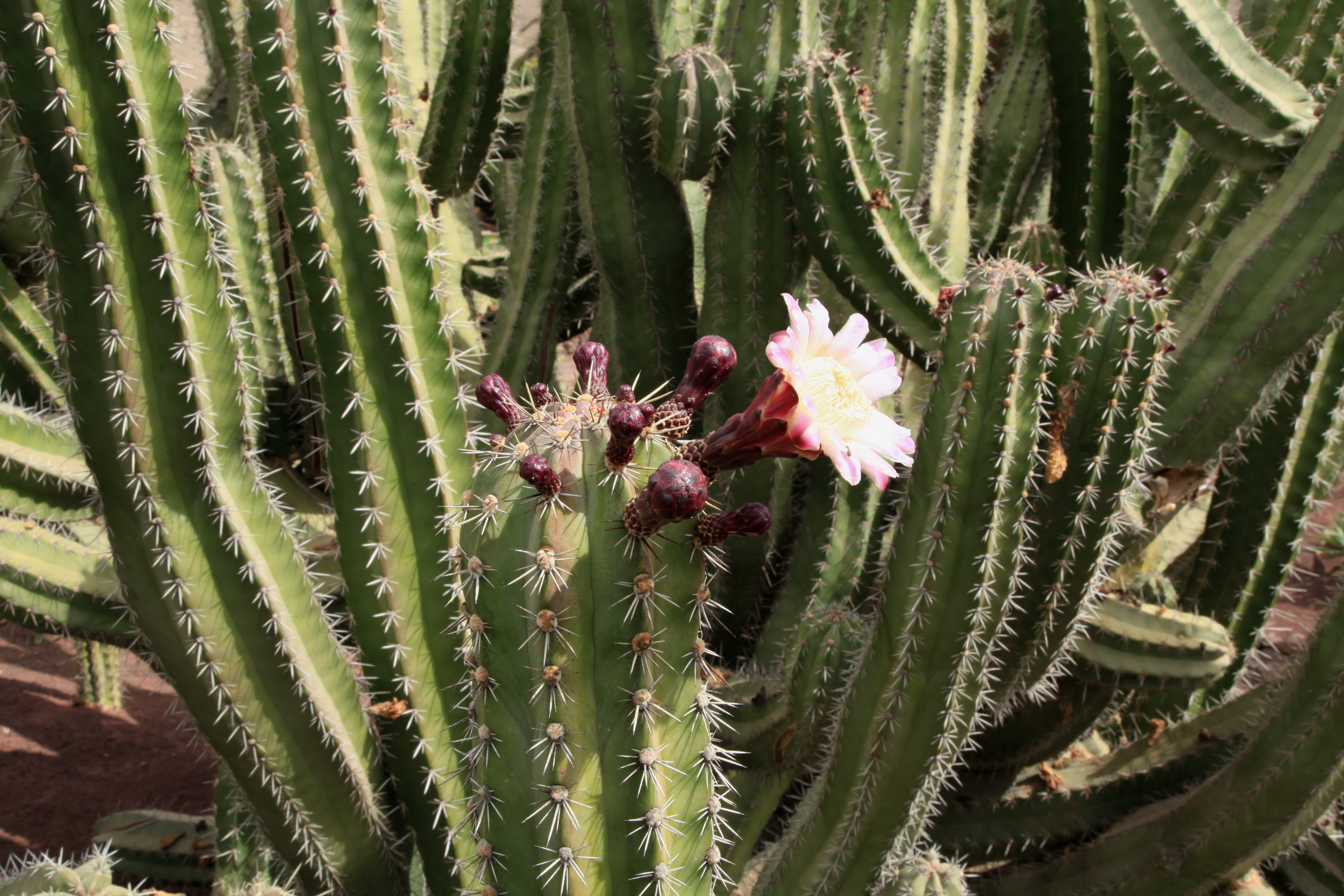 ??? in the Oasis Park in La Lajita, Pájara, Fuerteventura, Canary Islands